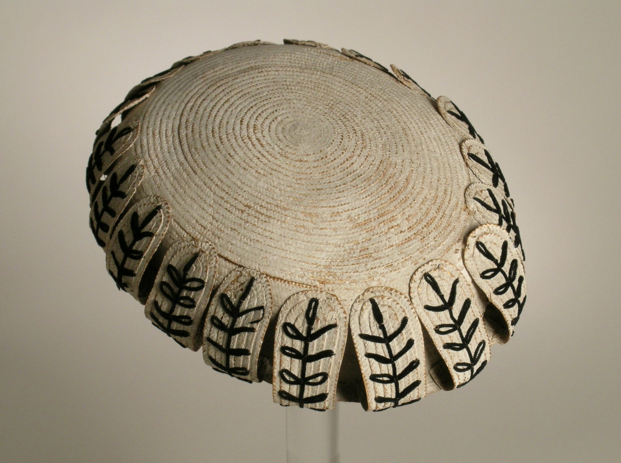 England, late 1860s Costumes; Accessories Painted straw, silk chenille Costume Council Fund (M.64.85.6) Costume and Textiles